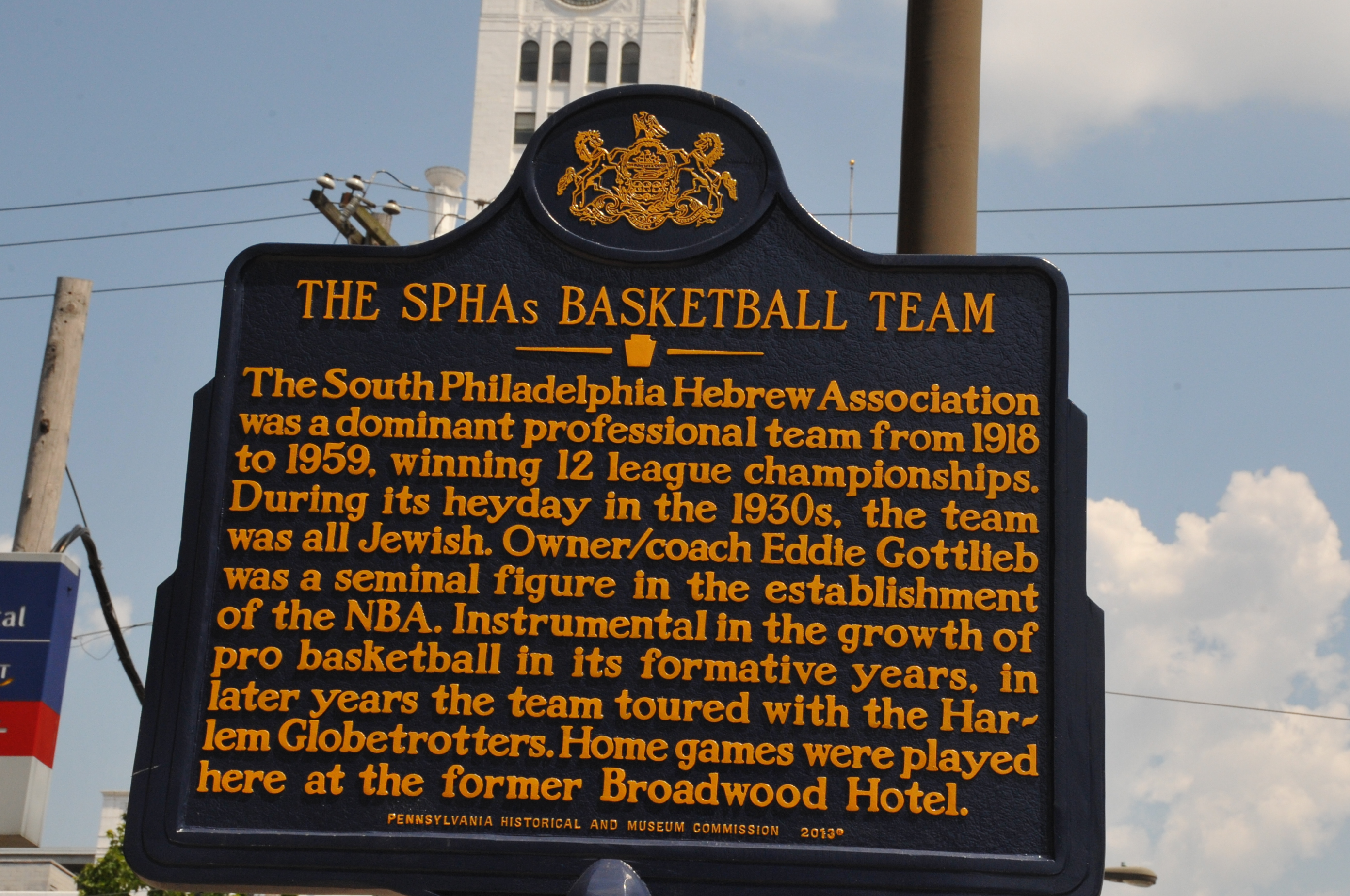 Street sign across from the Packard building. Here the Sphas played thier home games. An interesting note is that one of the prominent players was Red Klotz, who briefly played in the NBA with the Baltimore team.